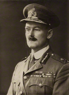 Portait of General Sir John Shea